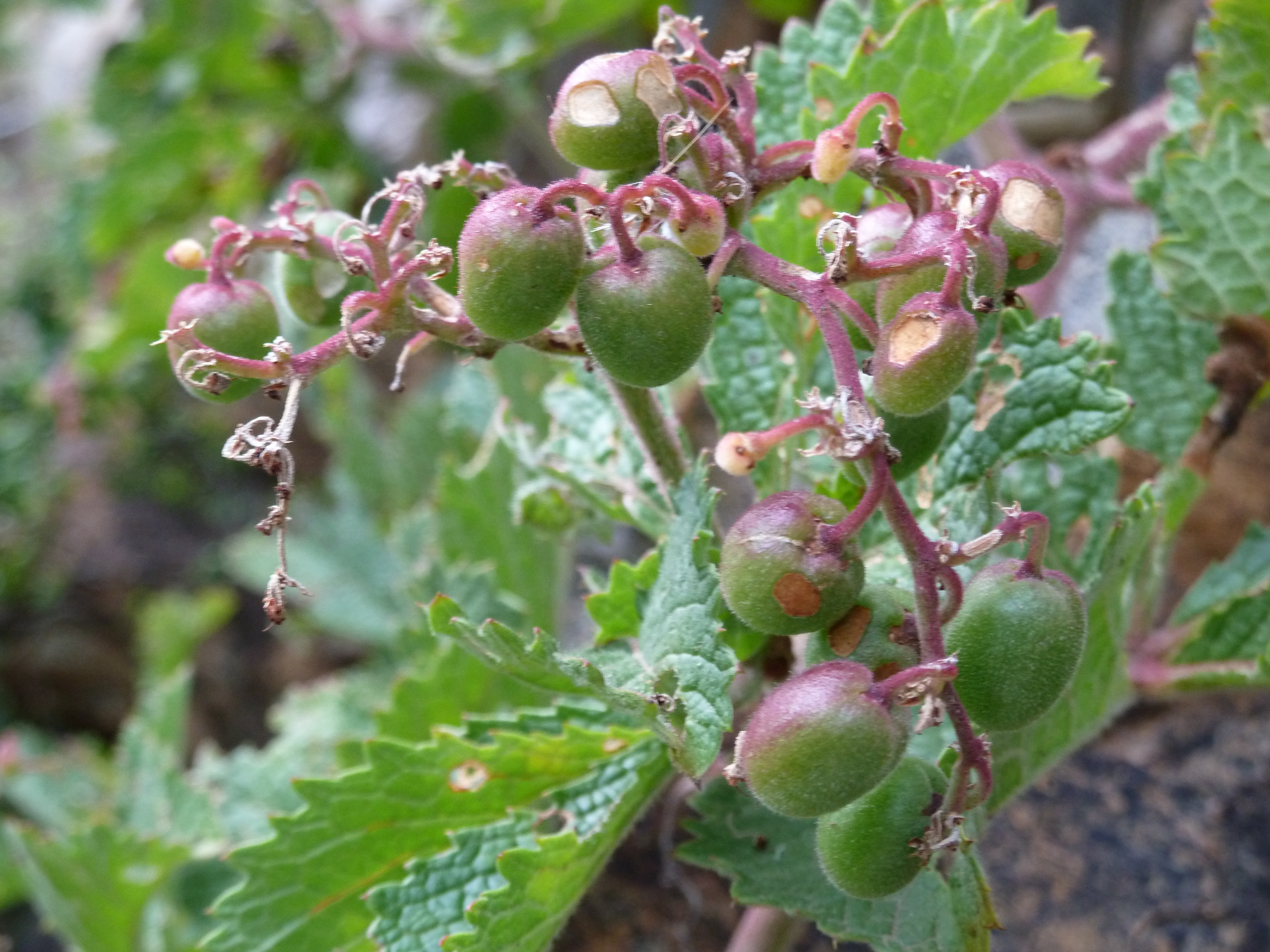 Cyphostemma cirrhosum on the Roodekrans in Walter Sisulu National Botanical Garden in western Roodepoort, South Africa